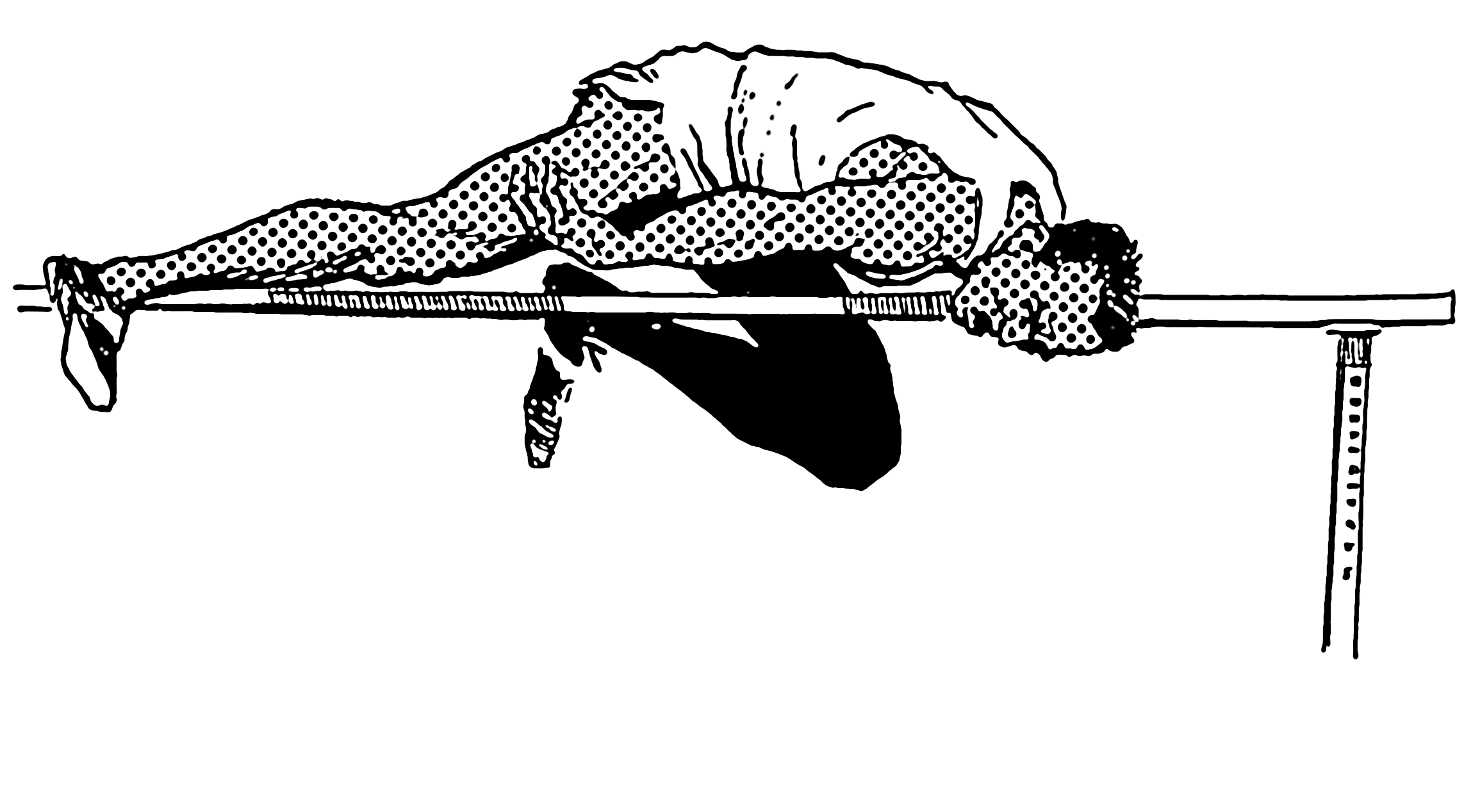 Line art drawing of a high jump.